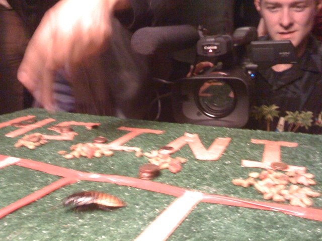 Cockroach Racing at Lost Vegas